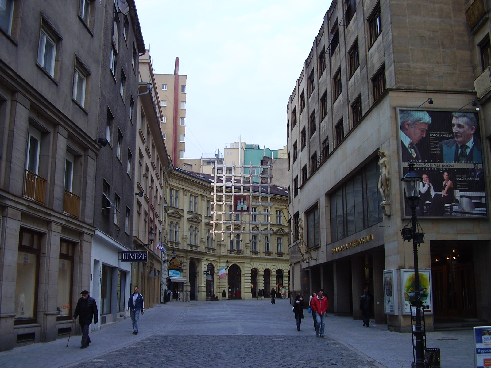 Bratislava city centre